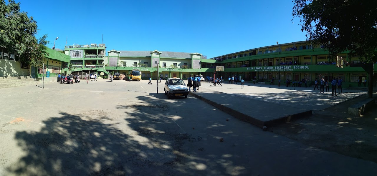 Helen lowry compound